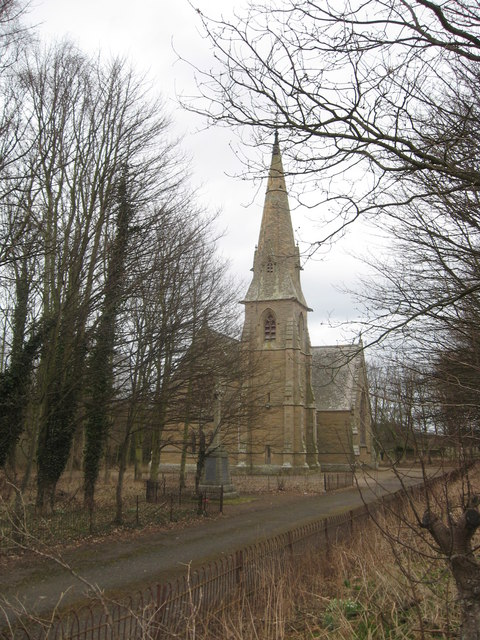 Ayton and Burnmouth Parish Church This kirk, as you can imagine, is very difficult to photograph when the trees are in full leaf.